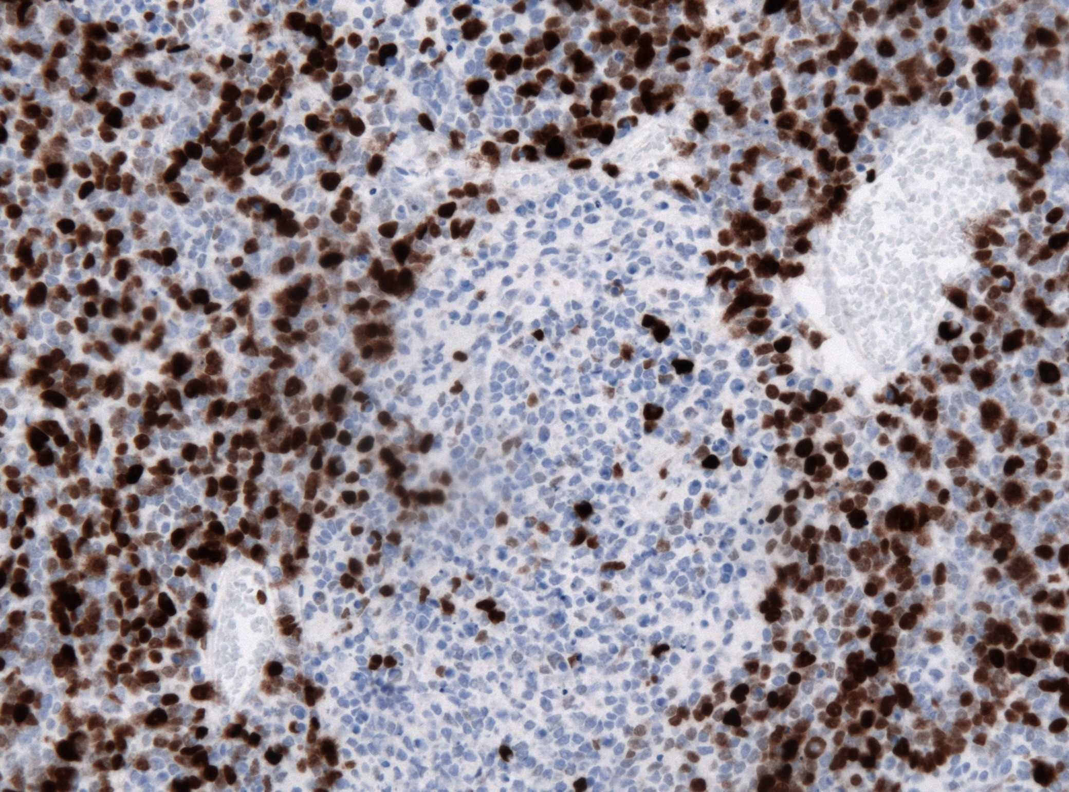 MIB-1 immunohistochemistry stained histology specimen of a desmoplastic medulloblastoma